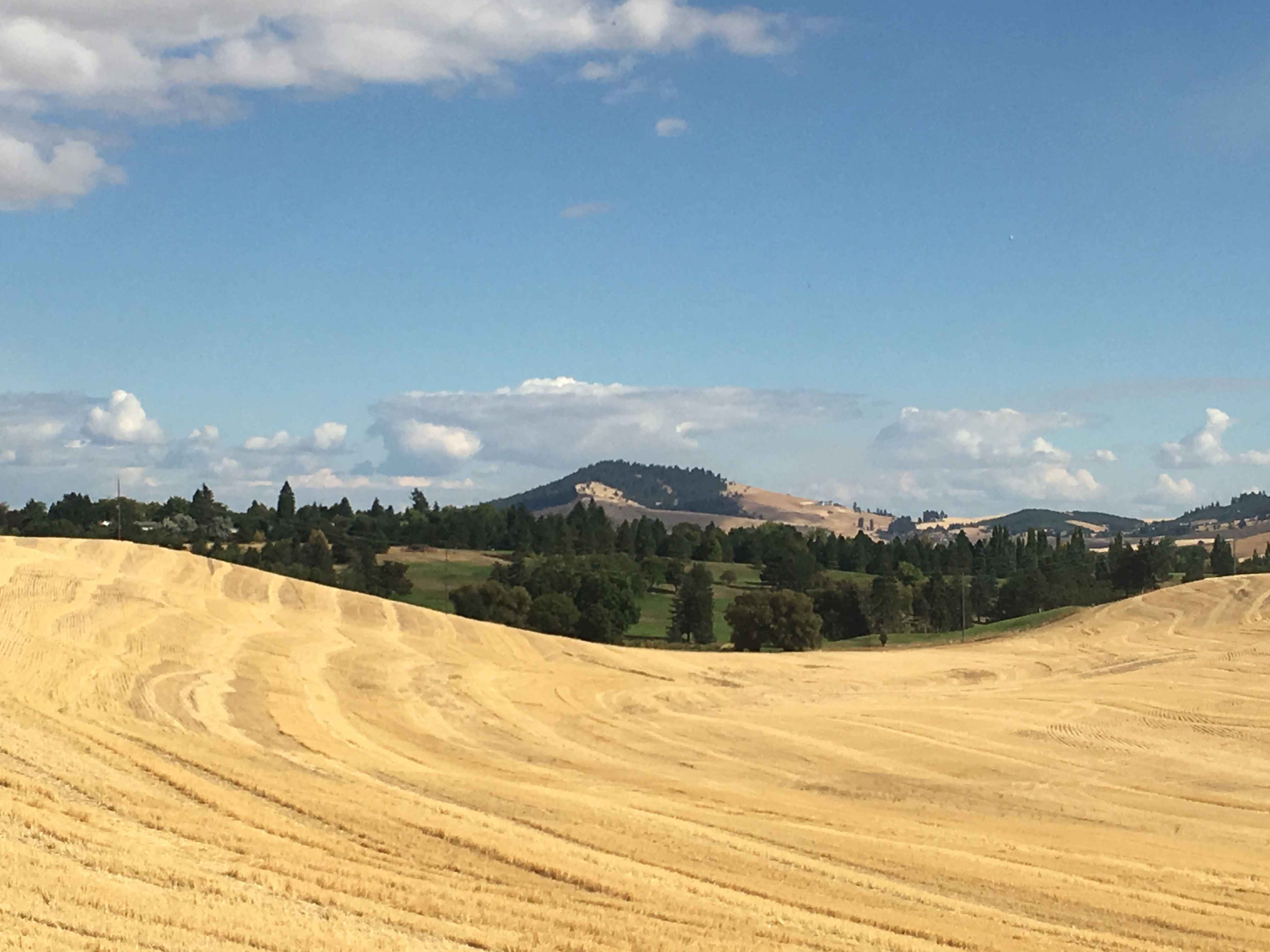 The Palouse region near Moscow, Idaho